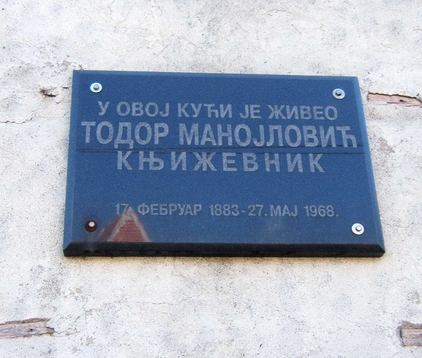 Todor Manojlović plaque